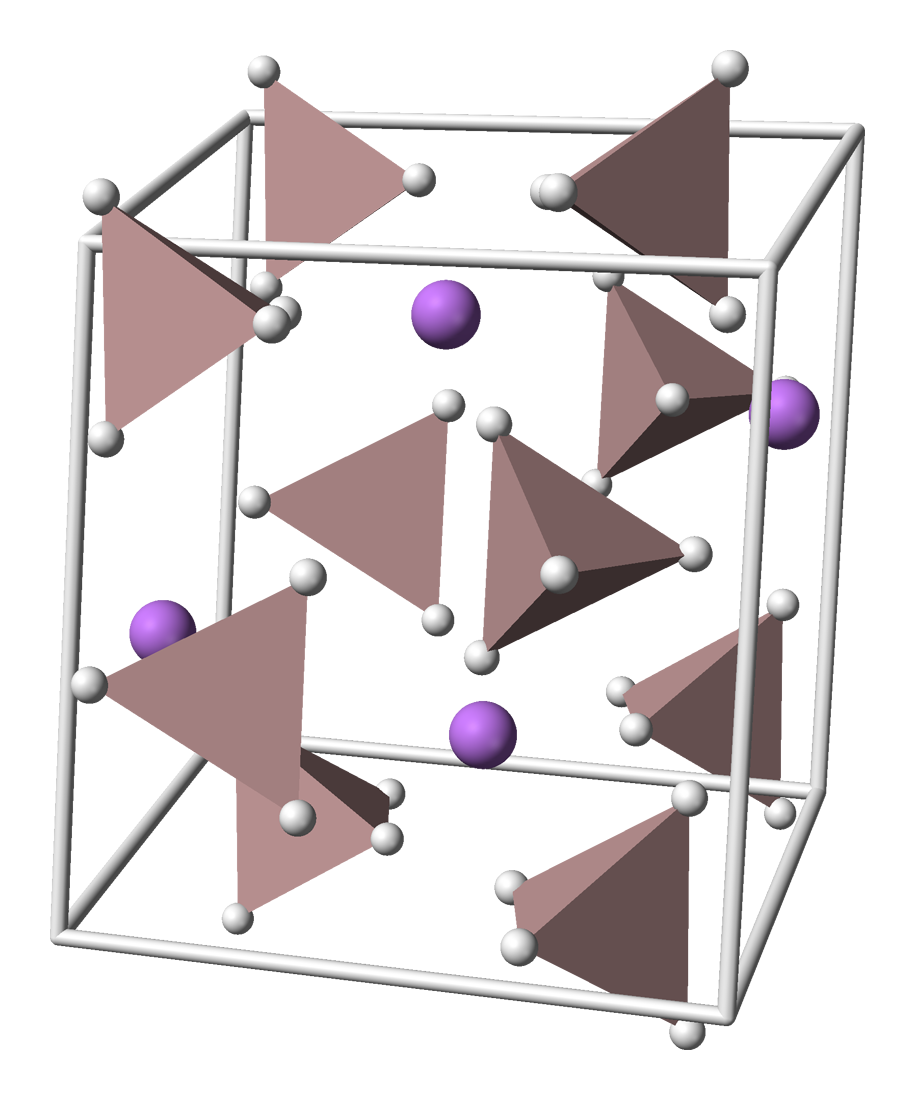 Polyhedral model of the unit cell of lithium aluminium hydride, LiAlH4